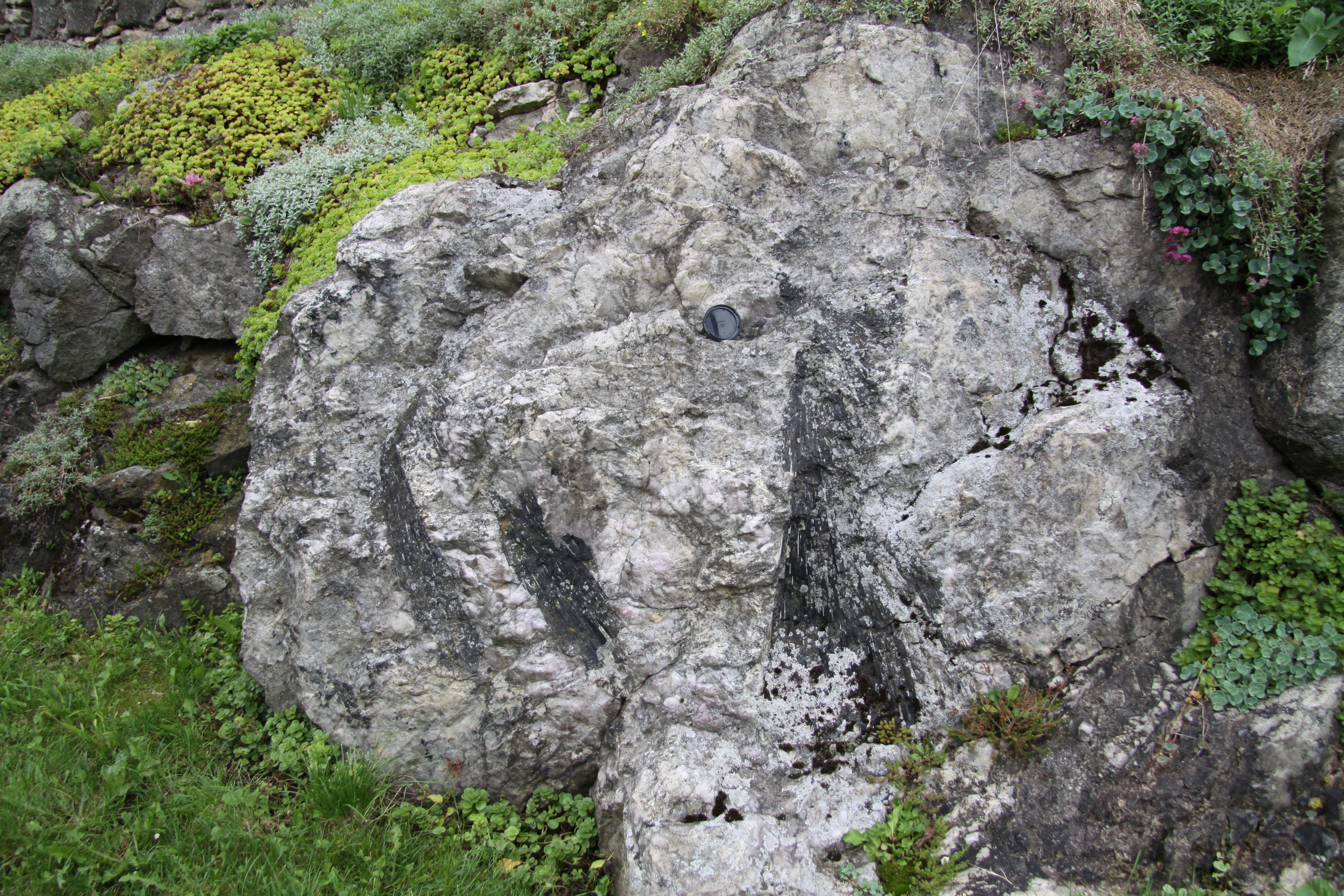 Protected area Myšenecká slunce in Myšenec village, Písek district, Czech Republic. In the location is big crystals of skoryl.